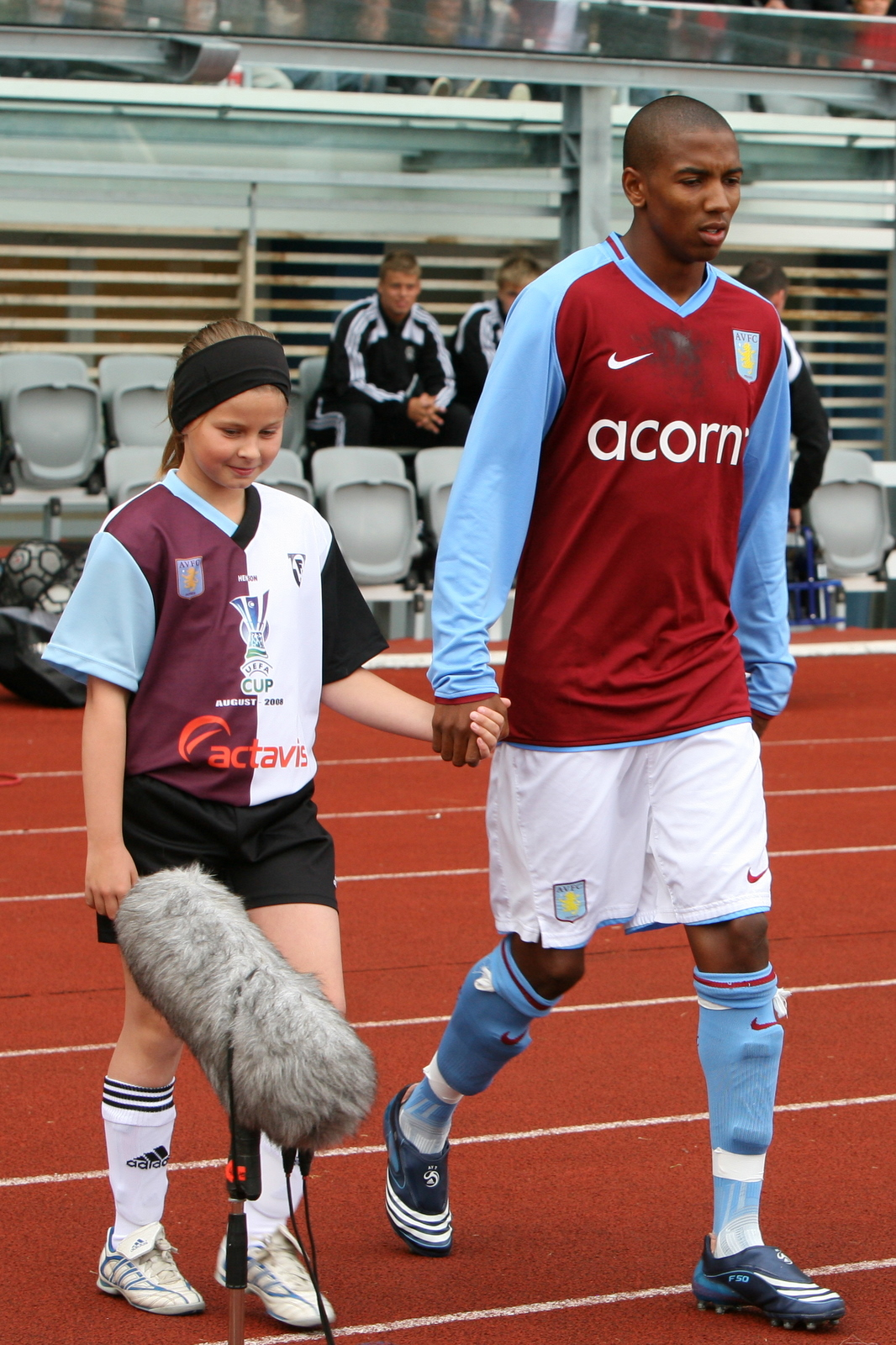 Ashley Young of Aston Villa